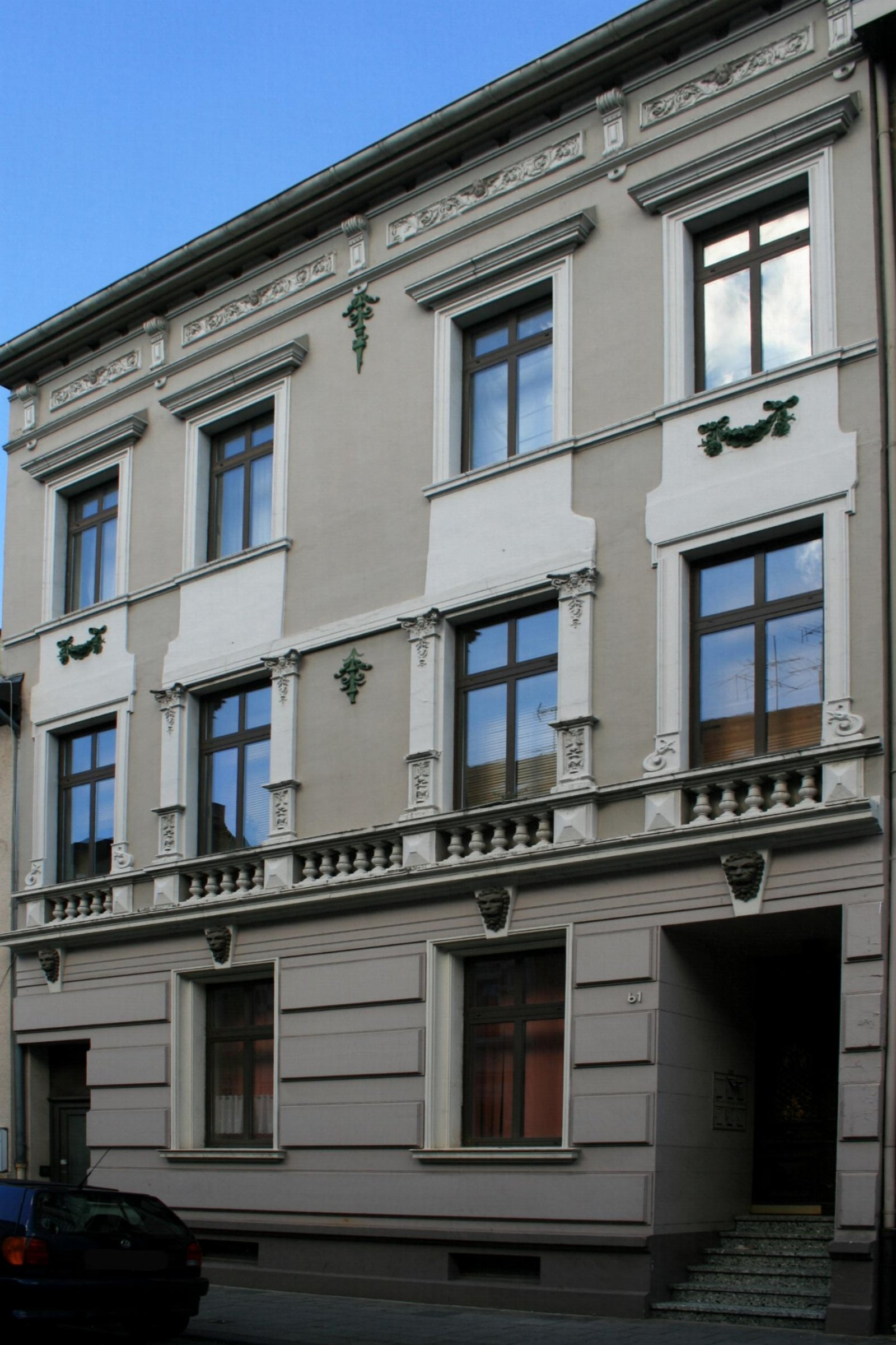 Cultural heritage monument No. K 004 in Mönchengladbach